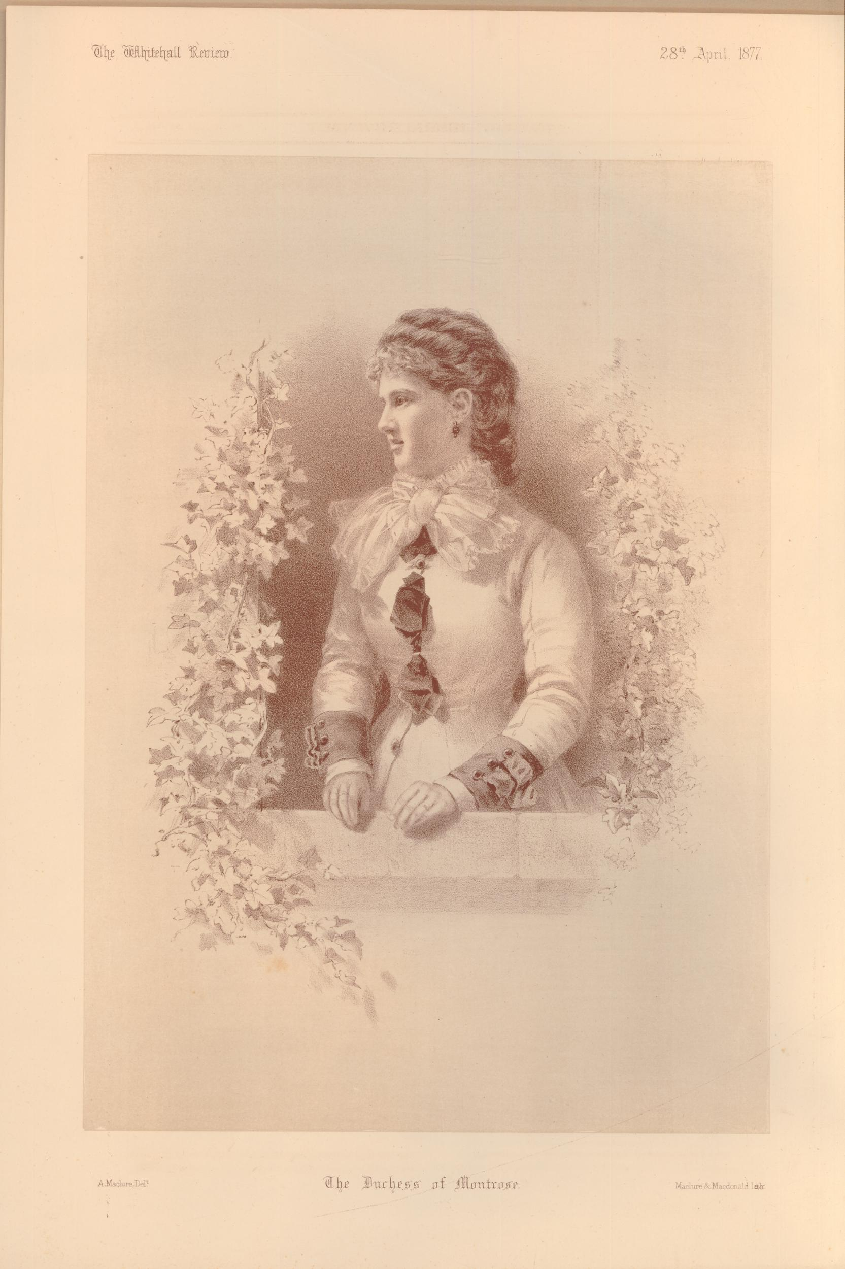 Portrait of Violet, Duchess of Montrose; three quarter length, standing on balcony, lhands on ledge, looking to left; wearing dress with large bow at neck; ivy growing with side of her; vignette; illustration to 'The Whitehall Review' (28 April, 1877) Lithograph